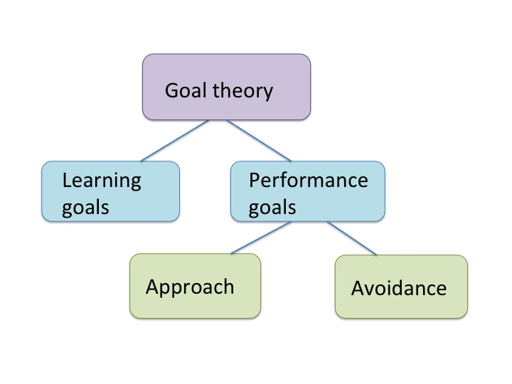 goal theory diagram